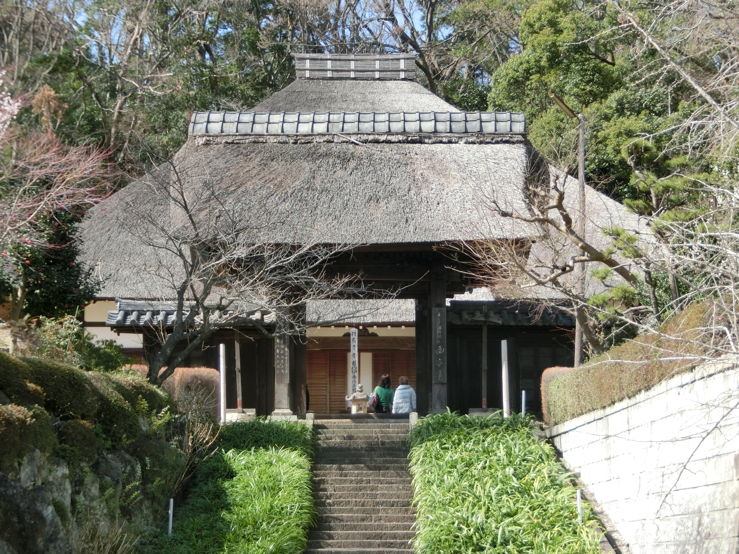 Saiho-ji (Yokohama)